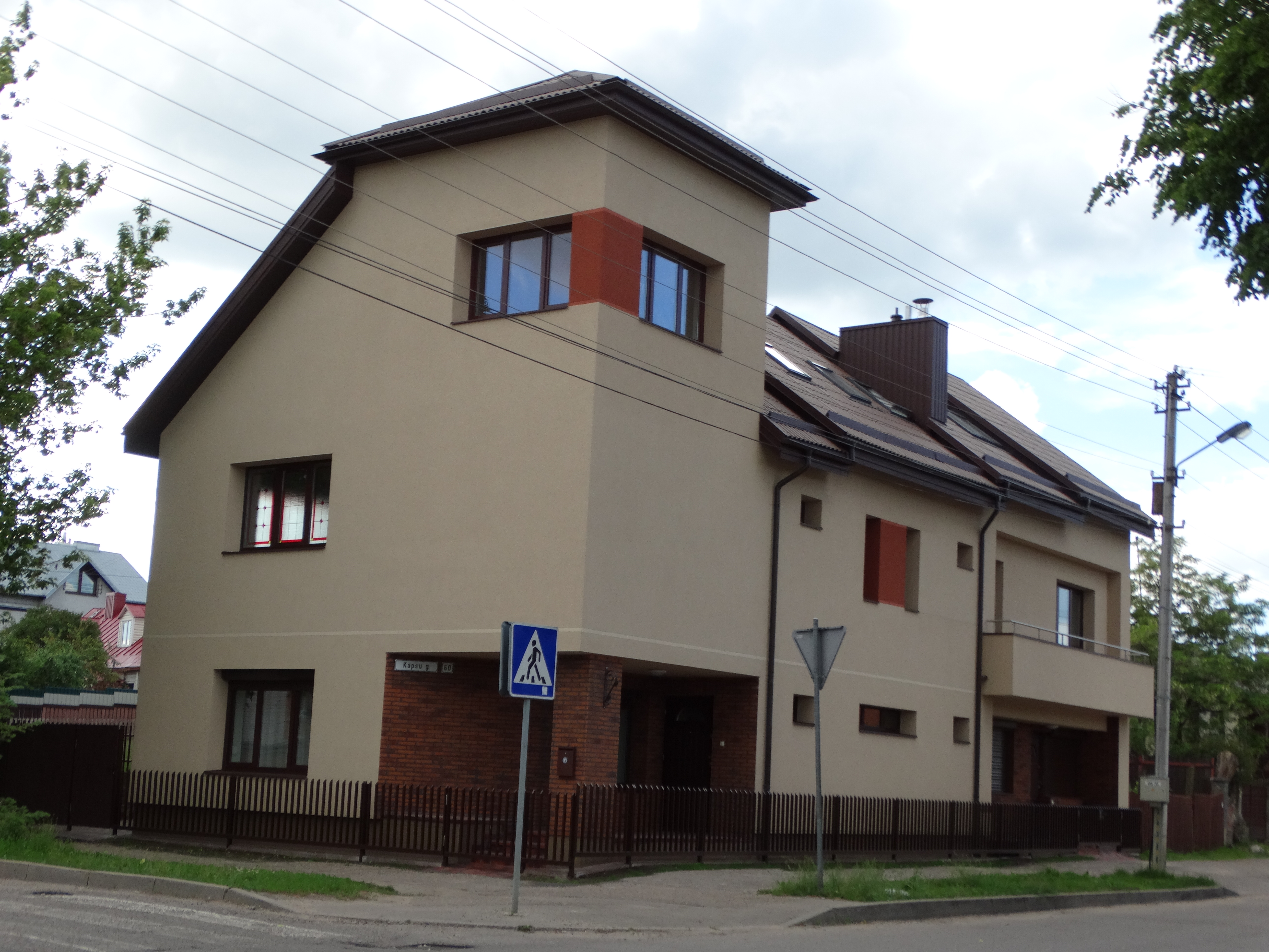 Opus Dei in Kaunas, Lithuania